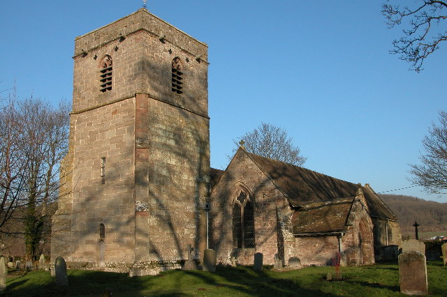 St Cuthbert's, Holme Lacy. This church is now in the care of The Churches Conservation Trust and is well worth a visit just to see the tombs to the Scudamore family. The church is some distance from the village as over the centuries the village has relocated.